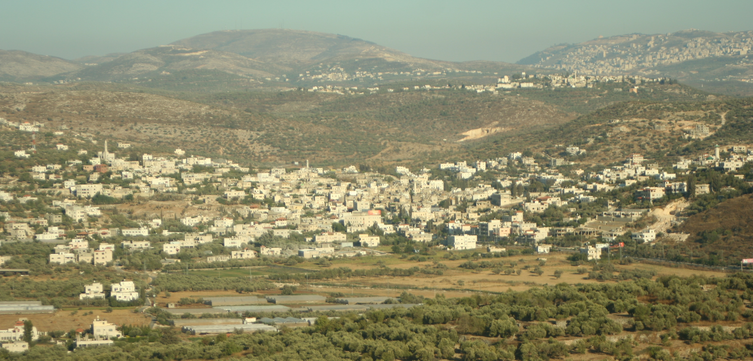 The sun setting on the Palestinian town of Anabta in the foreground. The village of Ramin can be seen in the middleground and the city of Nablus can be seen in the background.